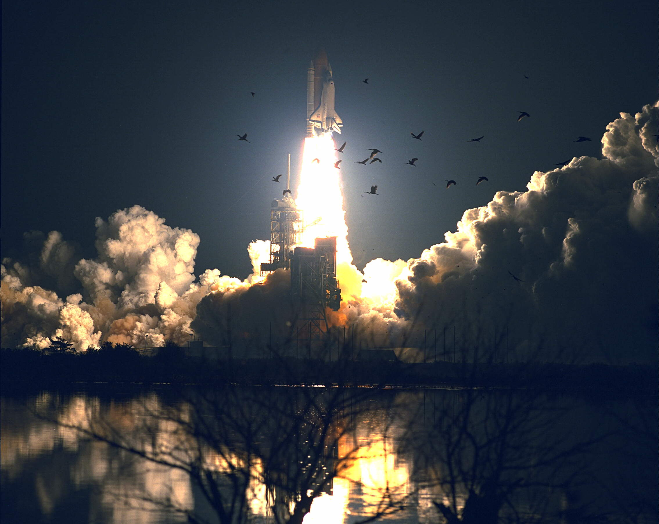 The Space Shuttle Atlantis turns night into day for a few moments as it lifts off on May 15 at 4:07:48 a.m. EDT from Launch Pad 39A on the STS-84 mission. The fourth Shuttle mission of 1997 will be the sixth docking of the Space Shuttle with the Russian Space Station Mir. The commander is Charles J. Precourt. The pilot is Eileen Marie Collins. The five mission specialists are C. Michael Foale, Carlos I. Noriega, Edward Tsang Lu, Jean-Francois Clervoy of the European Space Agency and Elena V. Kondakova of the Russian Space Agency. The planned nine-day mission will include the exchange of Foale for U.S. astronaut and Mir 23 crew member Jerry M. Linenger, who has been on Mir since Jan. 15. Linenger transferred to Mir during the last docking mission, STS-81; he will return to Earth on Atlantis. Foale is slated to remain on Mir for about four months until he is replaced in September by STS-86 Mission Specialist Wendy B. Lawrence. During the five days Atlantis is scheduled to be docked with the Mir, the STS-84 crew and the Mir 23 crew, including two Russian cosmonauts, Commander Vasily Tsibliev and Flight Engineer Alexander Lazutkin, will participate in joint experiments. The STS-84 mission also will involve the transfer of more than 7,300 pounds of water, logistics and science equipment to and from the Mir. Atlantis is carrying a nearly 300-pound oxygen generator to replace one of two Mir units which have experienced malfunctions. The oxygen it generates is used for breathing by the Mir crew.